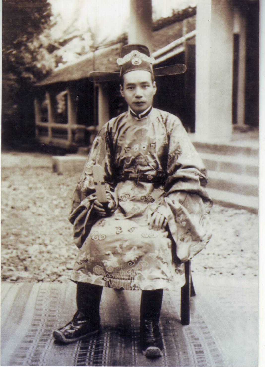 Nguyen Khac Niem